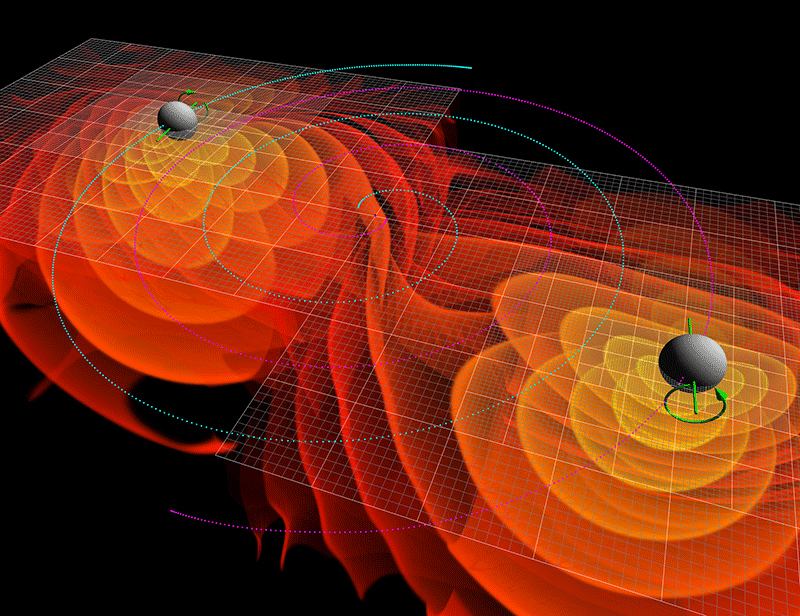 Numerical simulations of the gravitational waves emitted by the inspiral and merger of two black holes. The colored contours around each black hole represent the amplitude of the gravitational radiation; the blue lines represent the orbits of the black holes and the green arrows represent their spins.